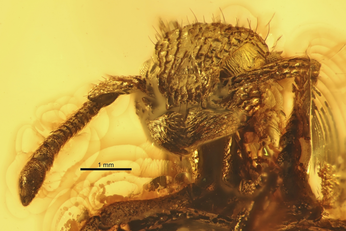 Close up of the head of Agroecomyrmex duisburgi. Specimen BMNHP18831